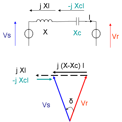 FACTS for series compensation- vector diagram